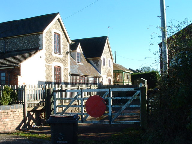 One Of Beechings Victims The old Holme Hale Station which is now a private residence, it still retains the Level Crossing gate and the Signal Box.